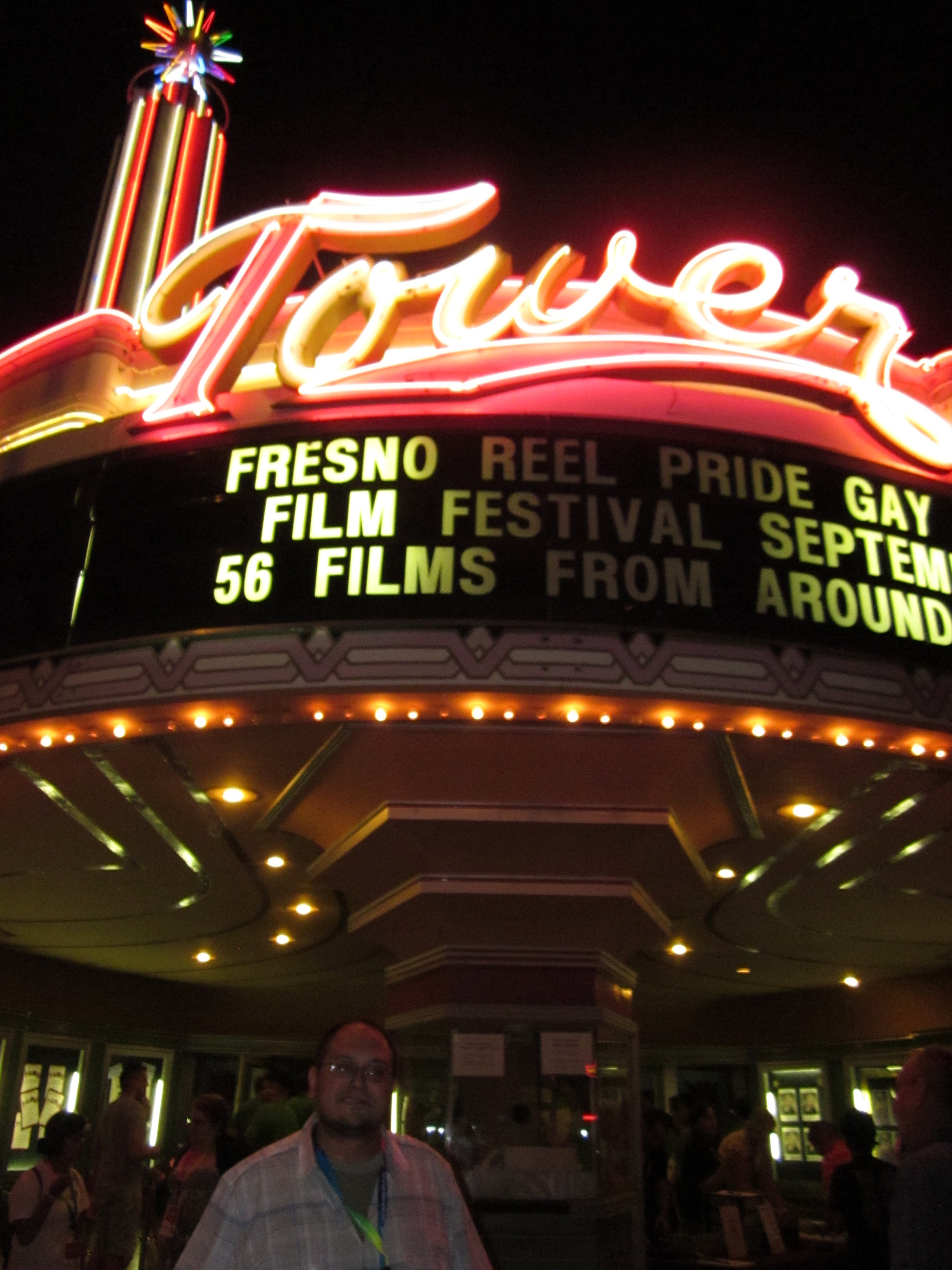 The NRHP-listed Tower Theatre in Fresno, California, at night with its signage light.